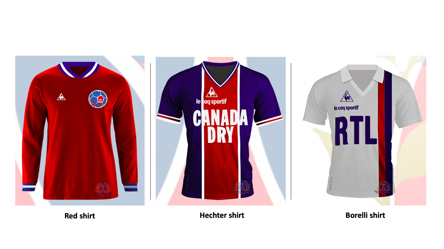 The three most iconic shirts of Paris Saint-Germain Football Club.